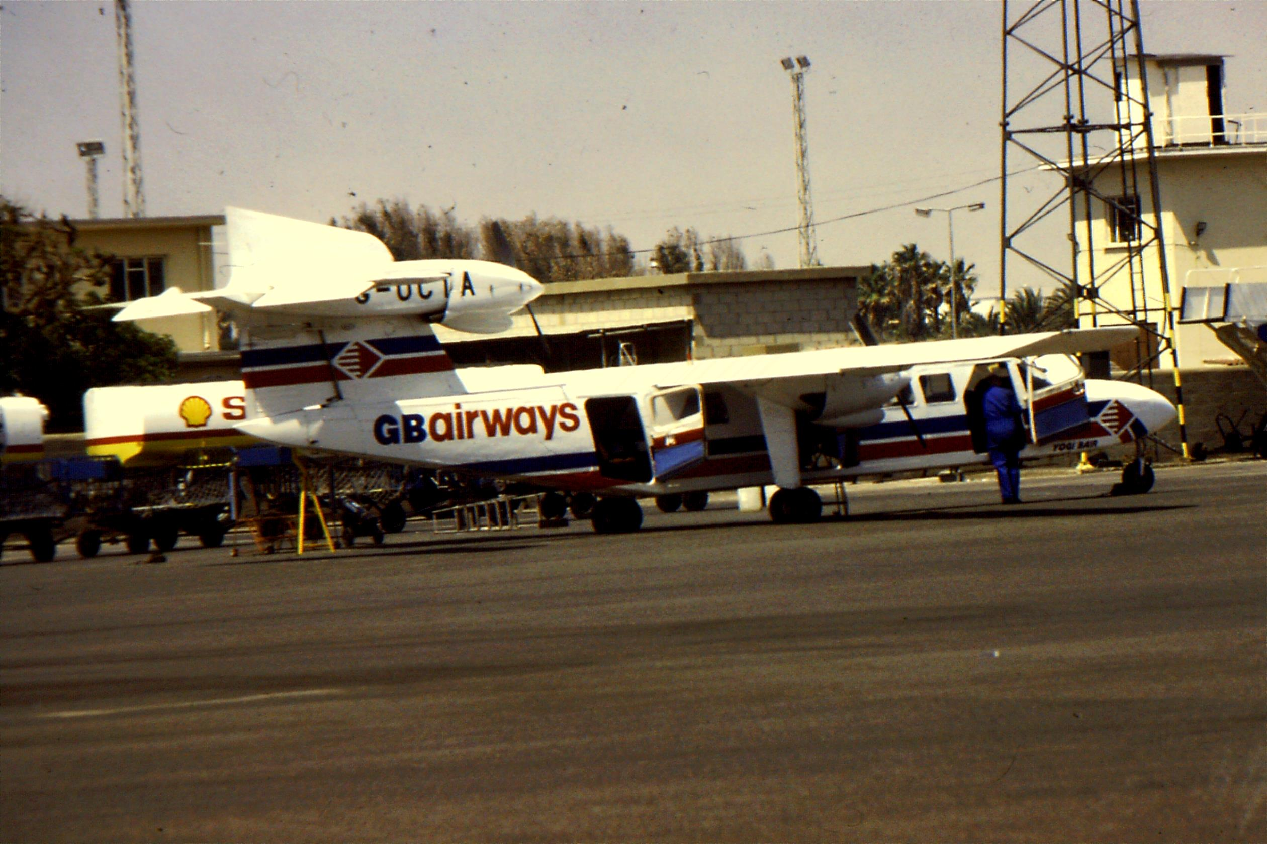 A snatched photo from the GIB departure hall. This was to take me on my shortest intercontinental flight between Europe and Africa; or GIB-TNG